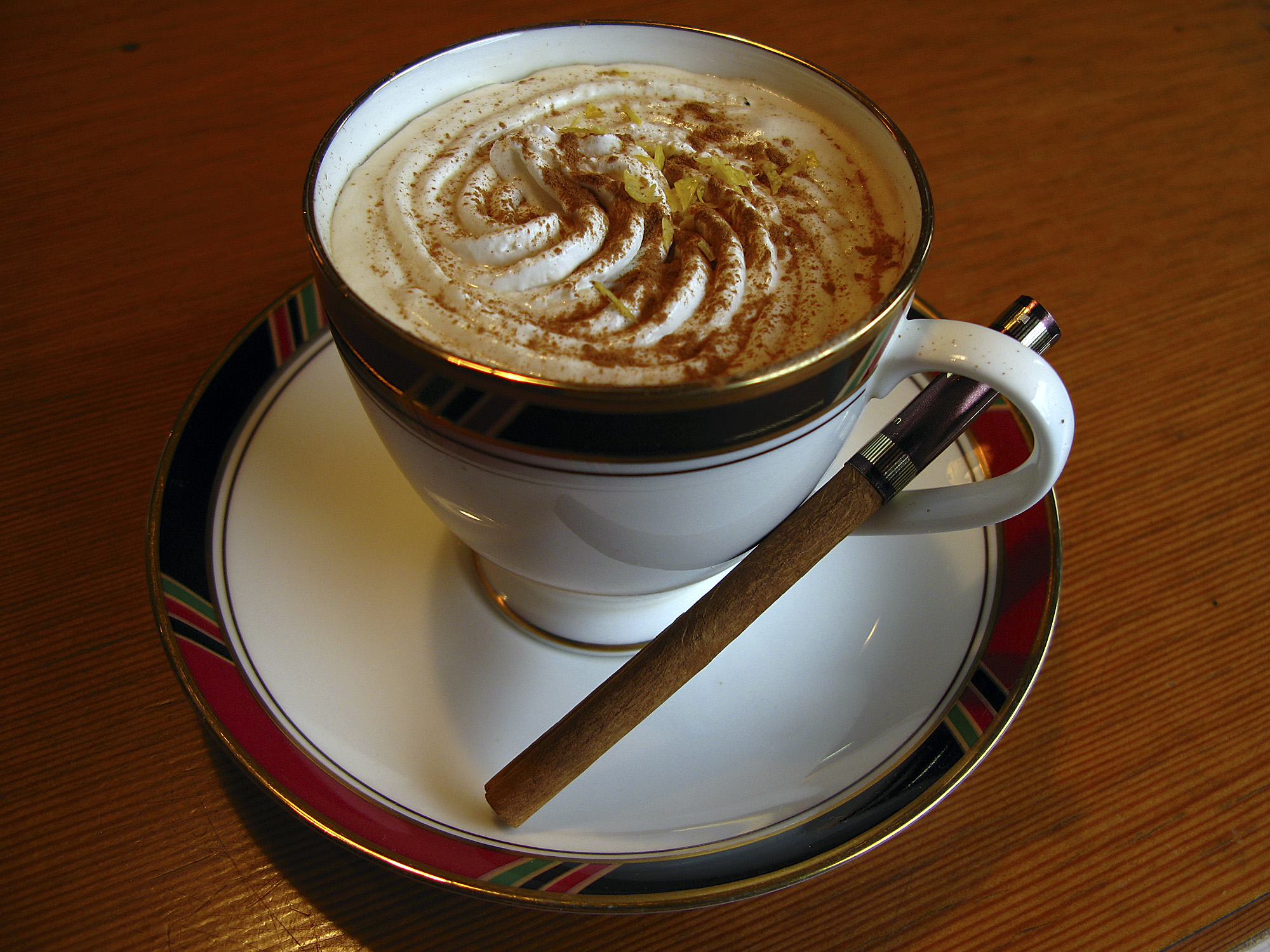 This photo shows a cup of cappuccino with a cinnamon stick. I took the photo.